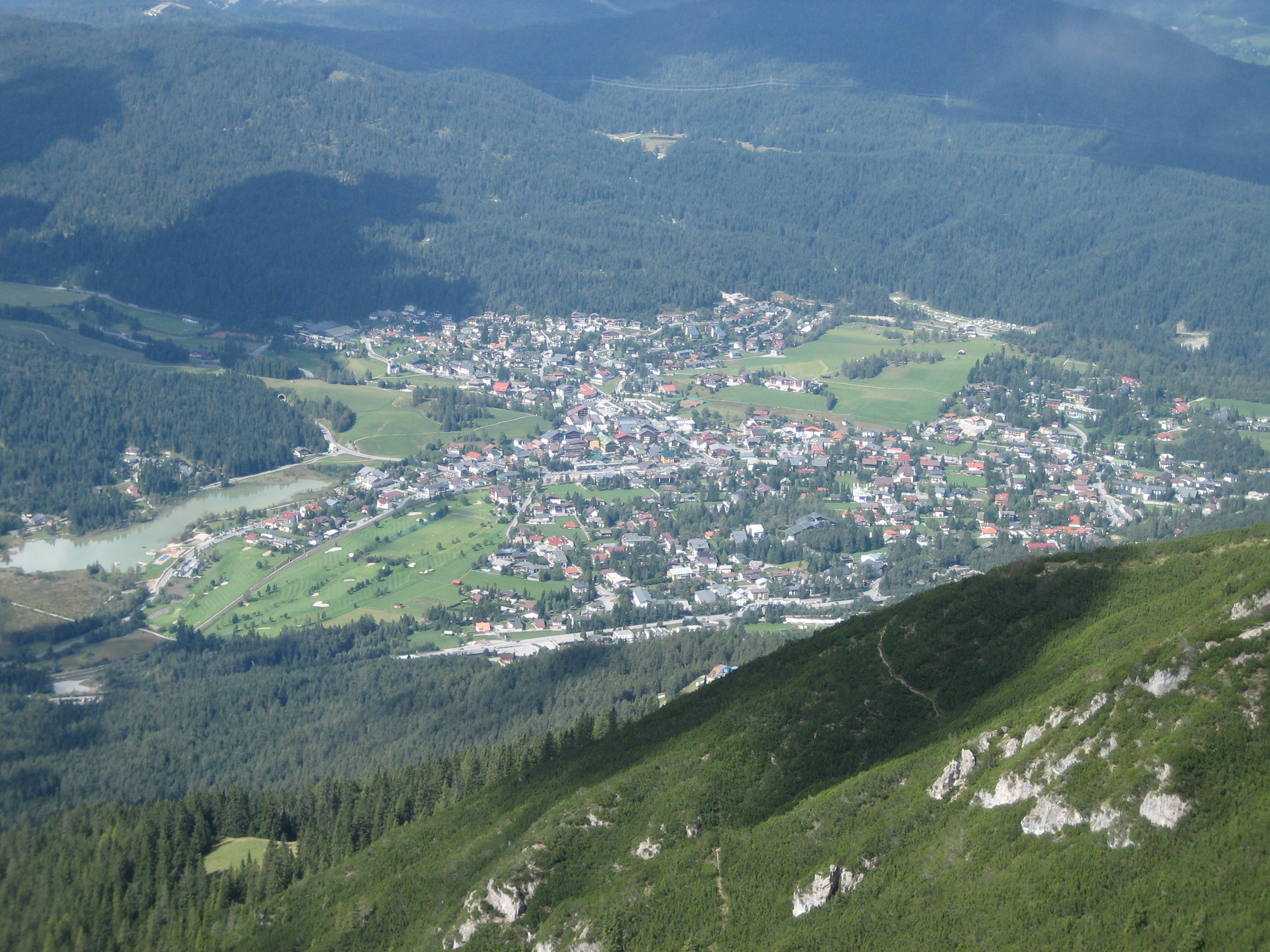 Seefeld in Tirol, Austria The three-pointed nature of the plateau is clearly visible. The valley to the left, next to the Wildsee lake, continues towards Innsbruck. (The leftmost edge of the photograph is more-or-less the watershed between the Inn, left/southwards and the Isar, right/northwards). The smaller valley also heading left goes towards Mösern. The Seekirchl (onion domed church) can be seen. The hill between the two is the Pfarrhügel; above it is the Gschwandkopf ski area (one of the pistes can be seen descending towards the Seekirchl). The right-hand edge of the photo shows the valley continuing northwards towards Scharnitz and, ultimately, Germany. This photograph was taken from the edge of the Reitherspitze; one of the largest mountains that dominate the Seefeld plateau, in the Karwendel range. Other visible features include the golf academy (a larger golf course is not visible in the woods) and rolling hills heading towards the Leutasch valley. These wooded hills are one of the things that makes the area more varied than a typical valley-bottom mountain resort.